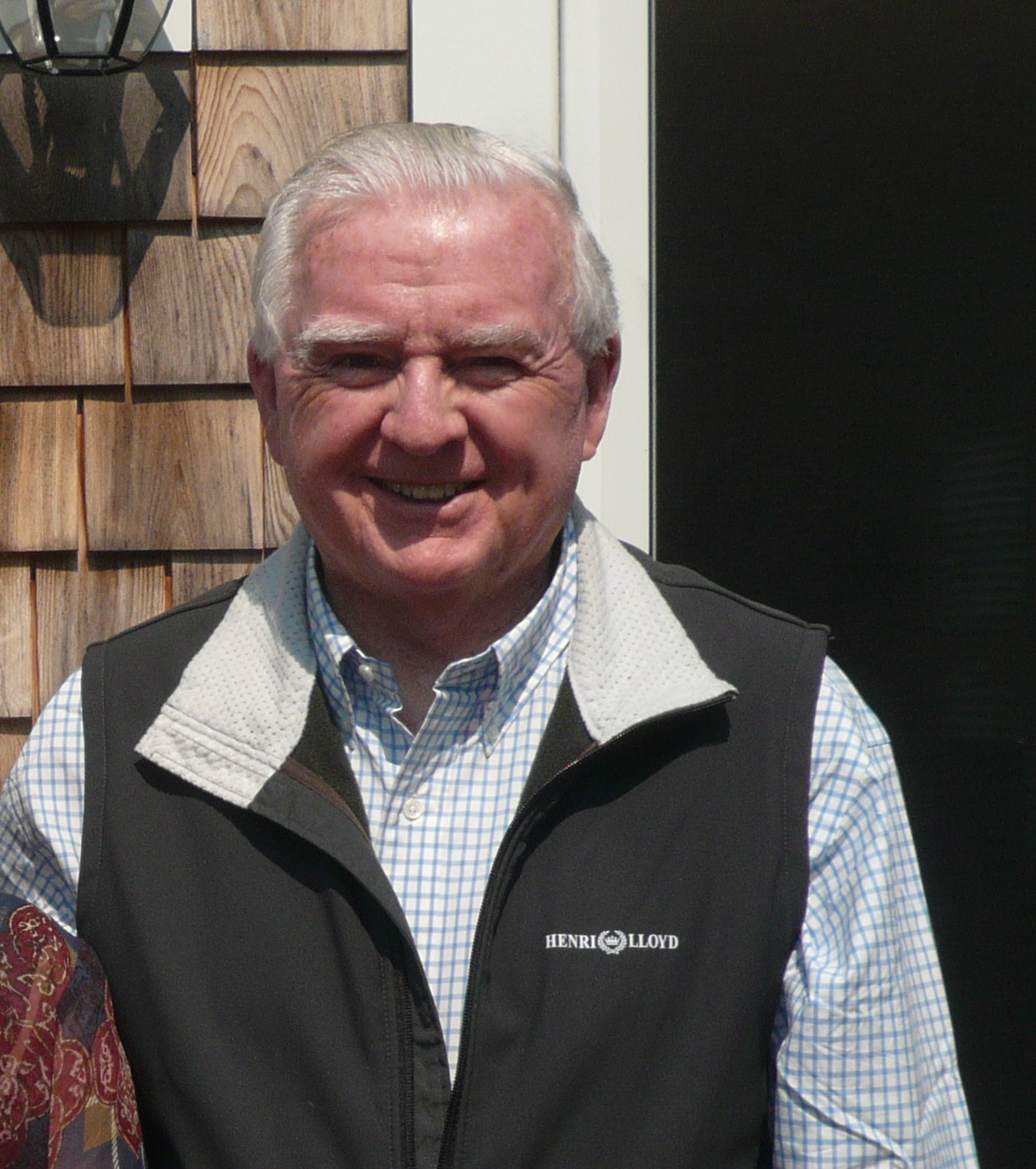 Bishop Mulvee at our Cape home in May of 2010